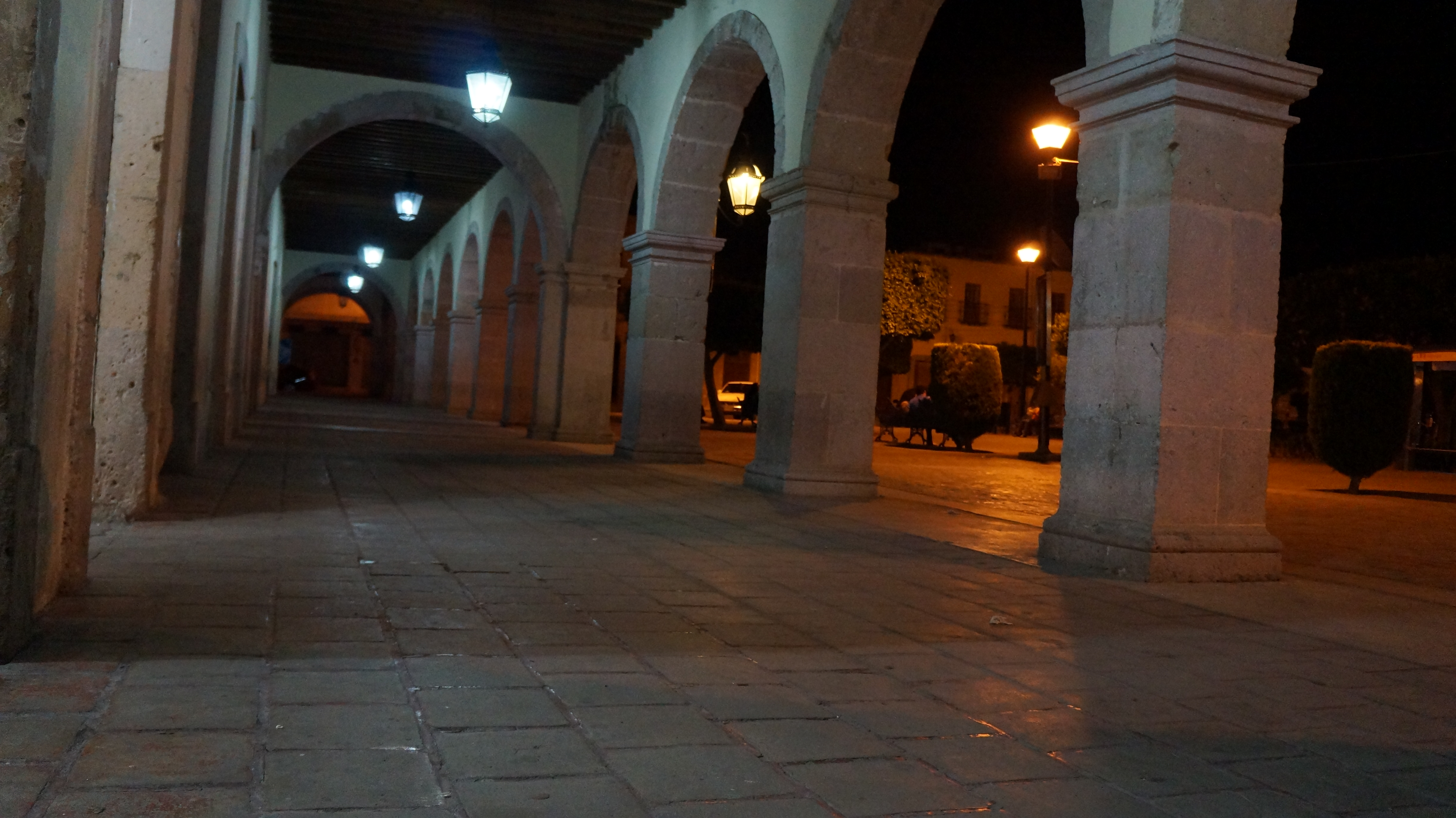 Public space